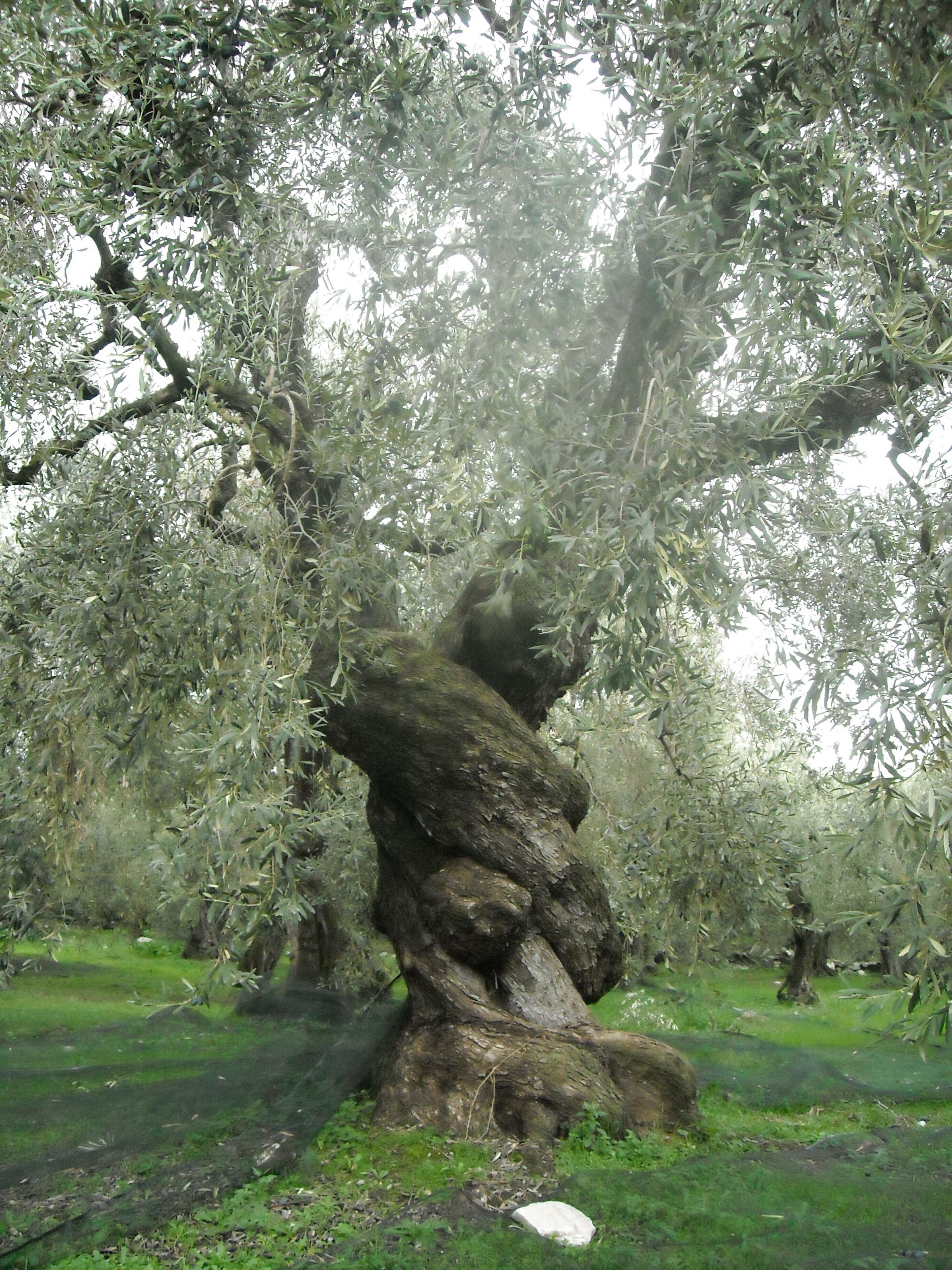 Unique Ancient Olive Tree